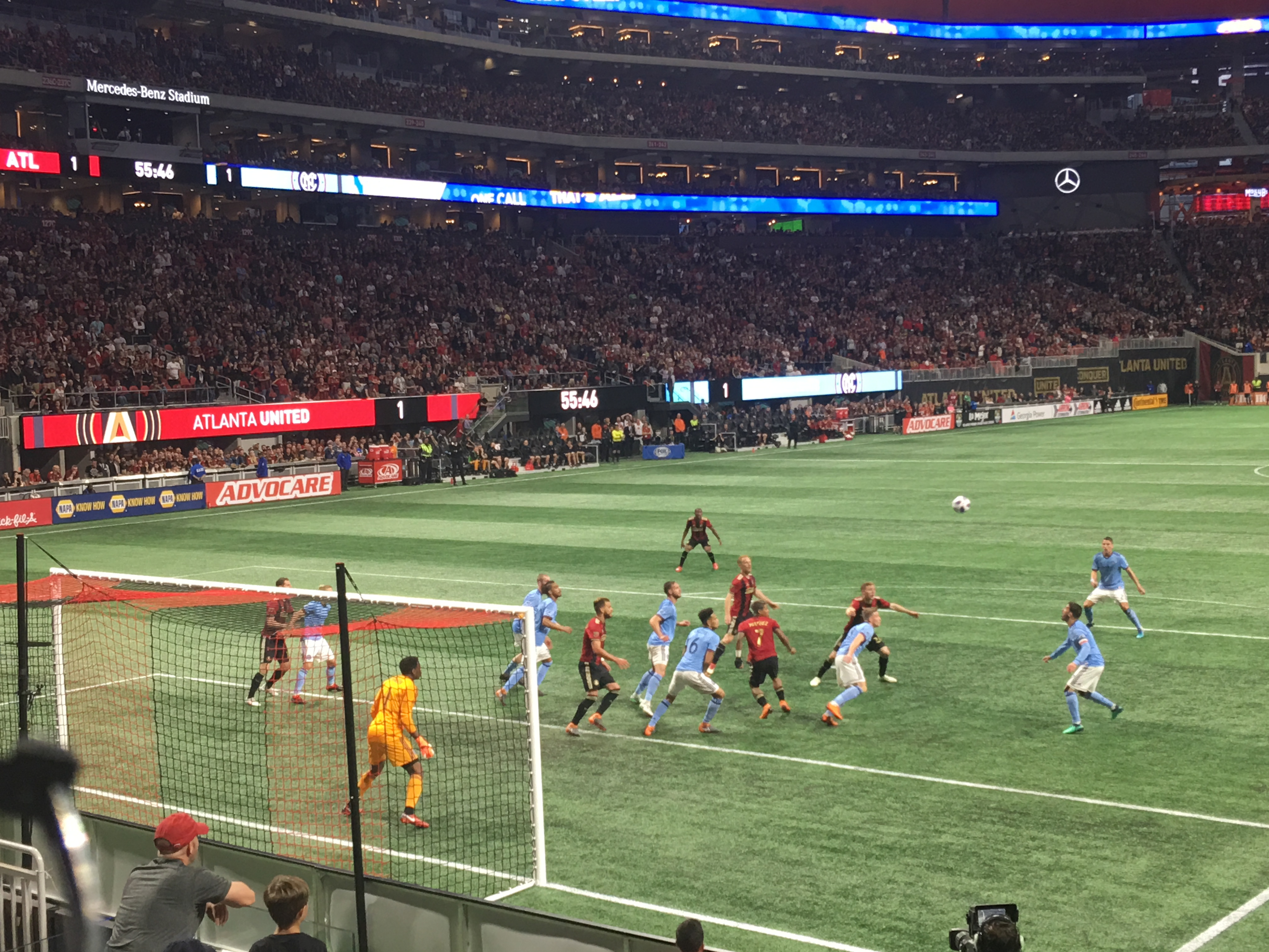 2018-04-15 - Atlanta United vs NYFC